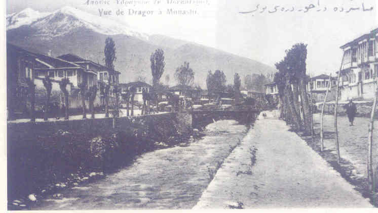 View of the River Dragora in Monastir [Bitola, North Macedonia]